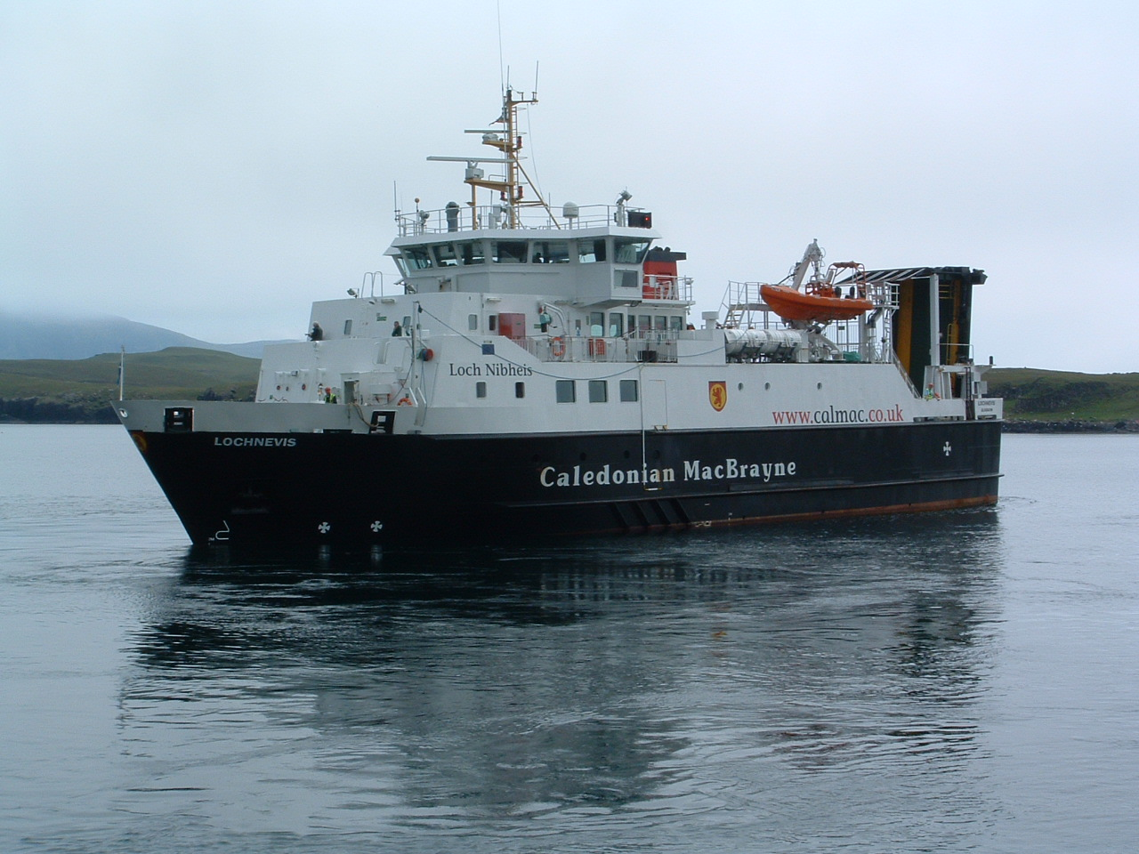 Calmac ferry MV Lochnevis, in Canna harbour IMO Number: 9209063 MMSI Number: 235000141 Callsign: ZQGW3 Length: 49 m Beam: 11 m